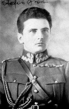 General Stefan Rowecki (1895-1943) - polish commander, officer of Polish Army, leader of the Home Army